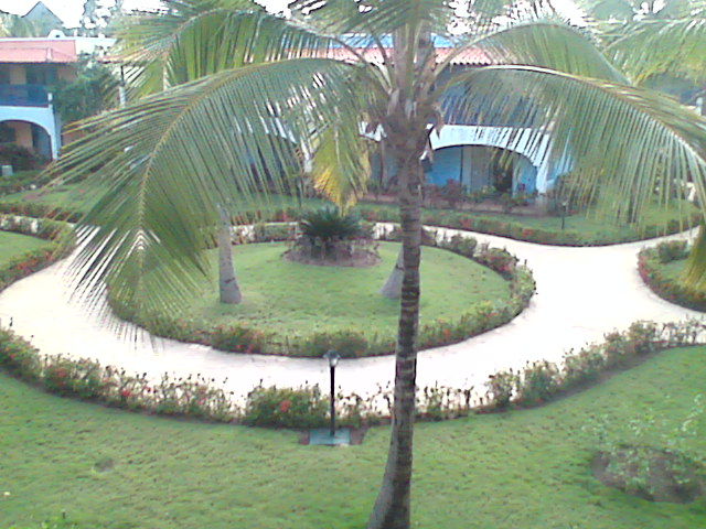 a garden in bayahibe